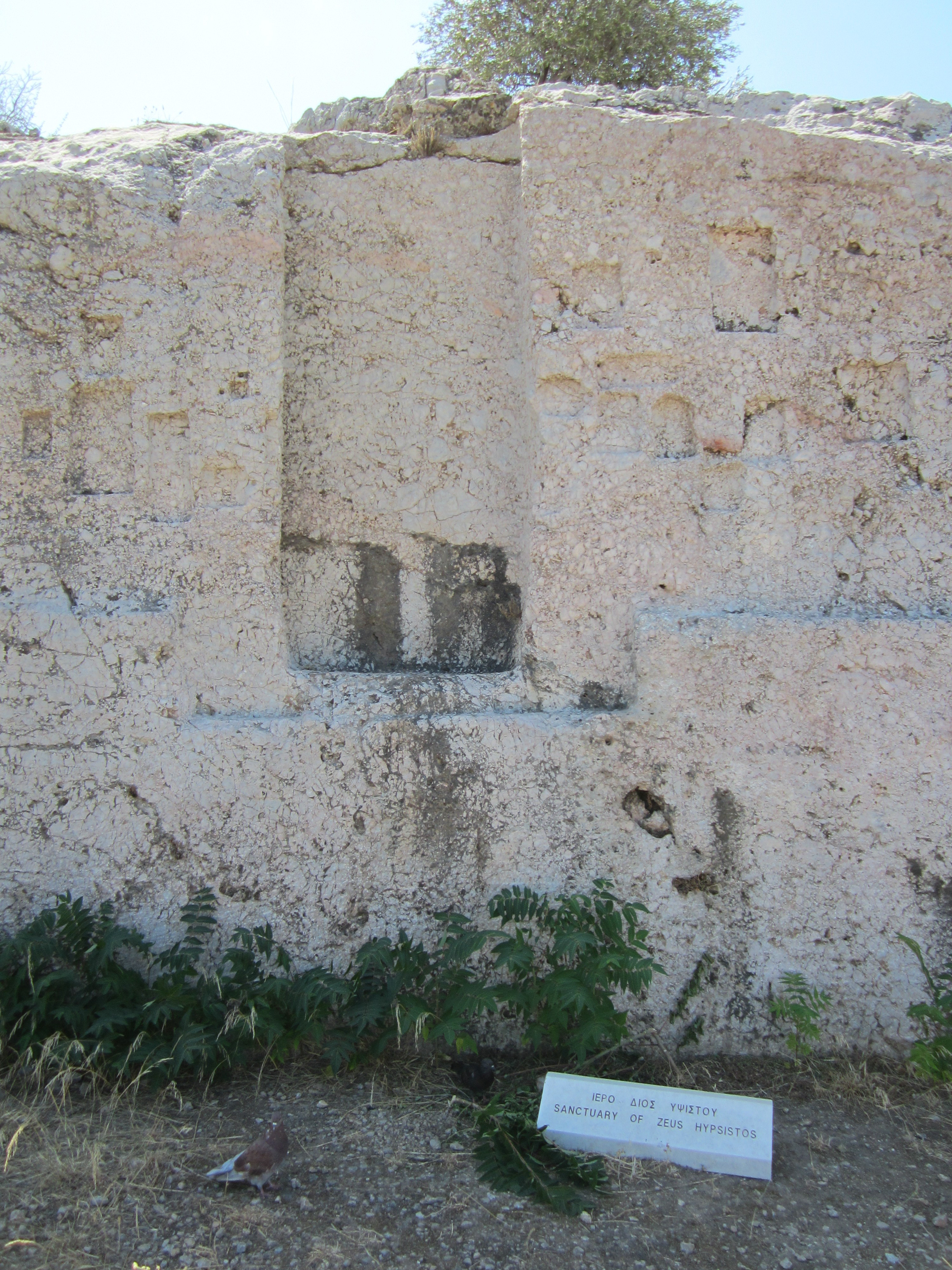 Sanctuary of Zeus Hypsistos. Pnyx, Athens, Greece.